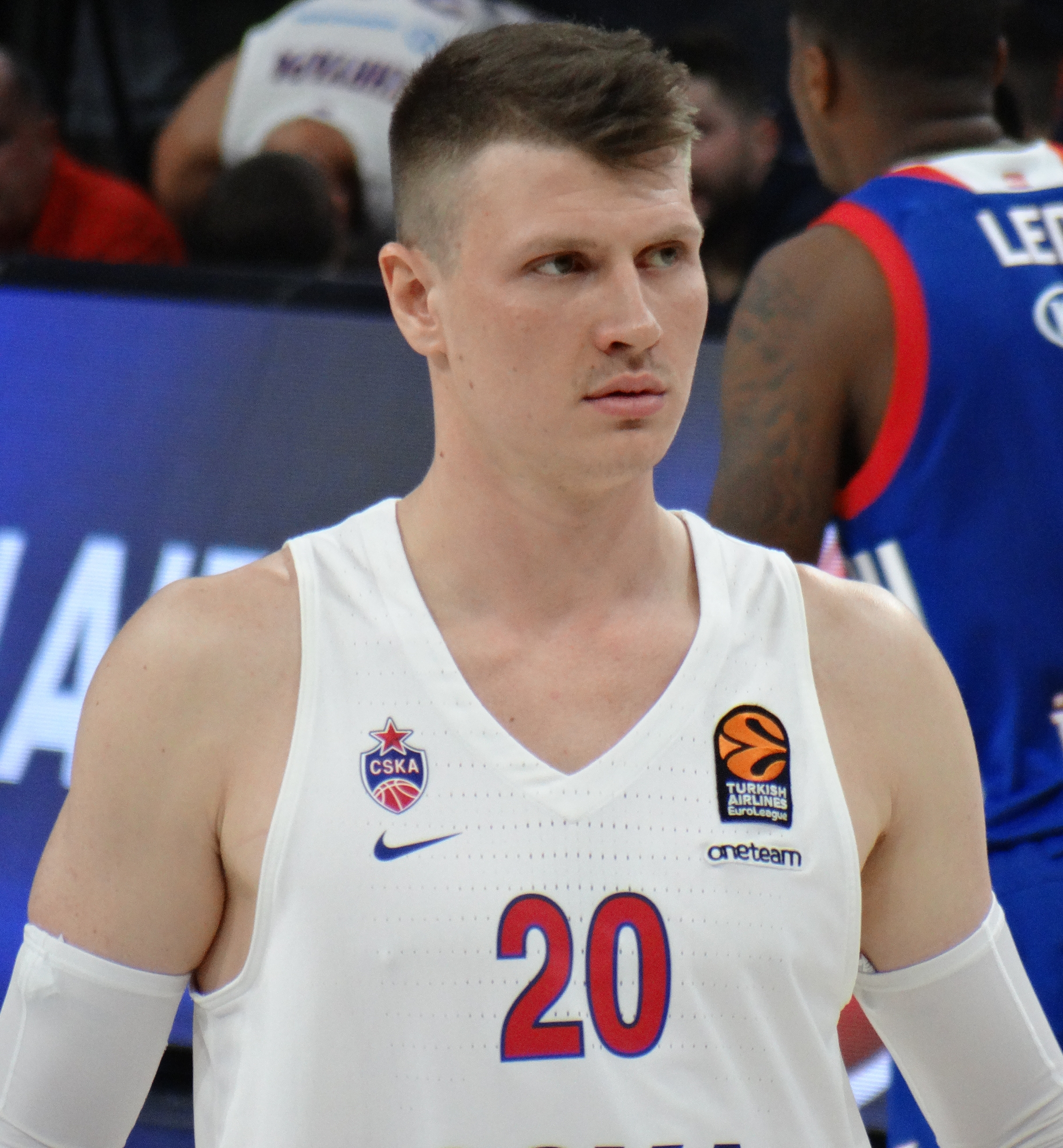 Andrey Vorontsevich 20 PBC CSKA Moscow 20171027